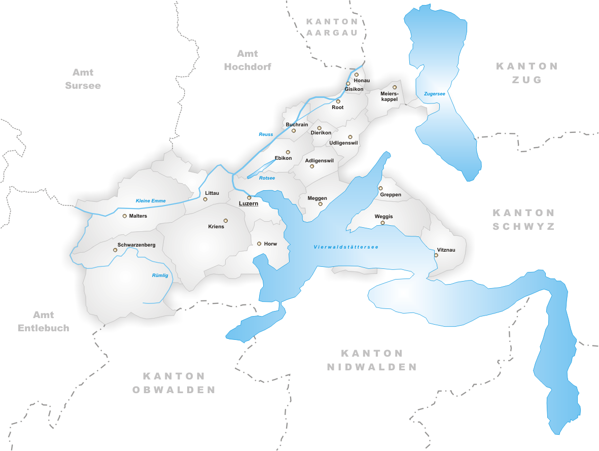 Municipalities of District Luzern